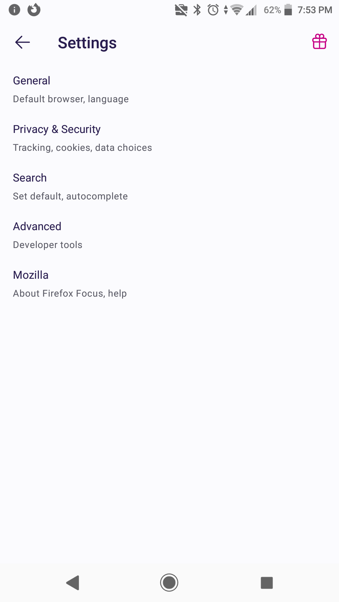 Firefox Focus settings screen english